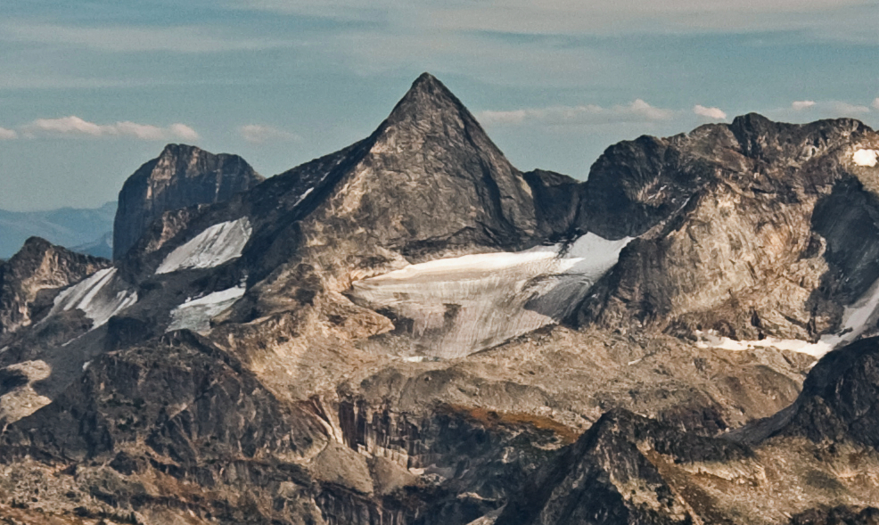 Valhallas' Asgard Peak seen from north